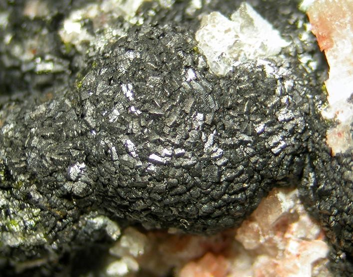 Vésigniéite Locality: Mashamba West Mine, Kolwezi, Western area, Katanga Copper Crescent, Katanga (Shaba), Democratic Republic of Congo (Zaïre) (Locality at ) Dark green almost black crystals of Vésigniéite. Field of view 6 mm. Specimen and photo Leon Hupperichs.